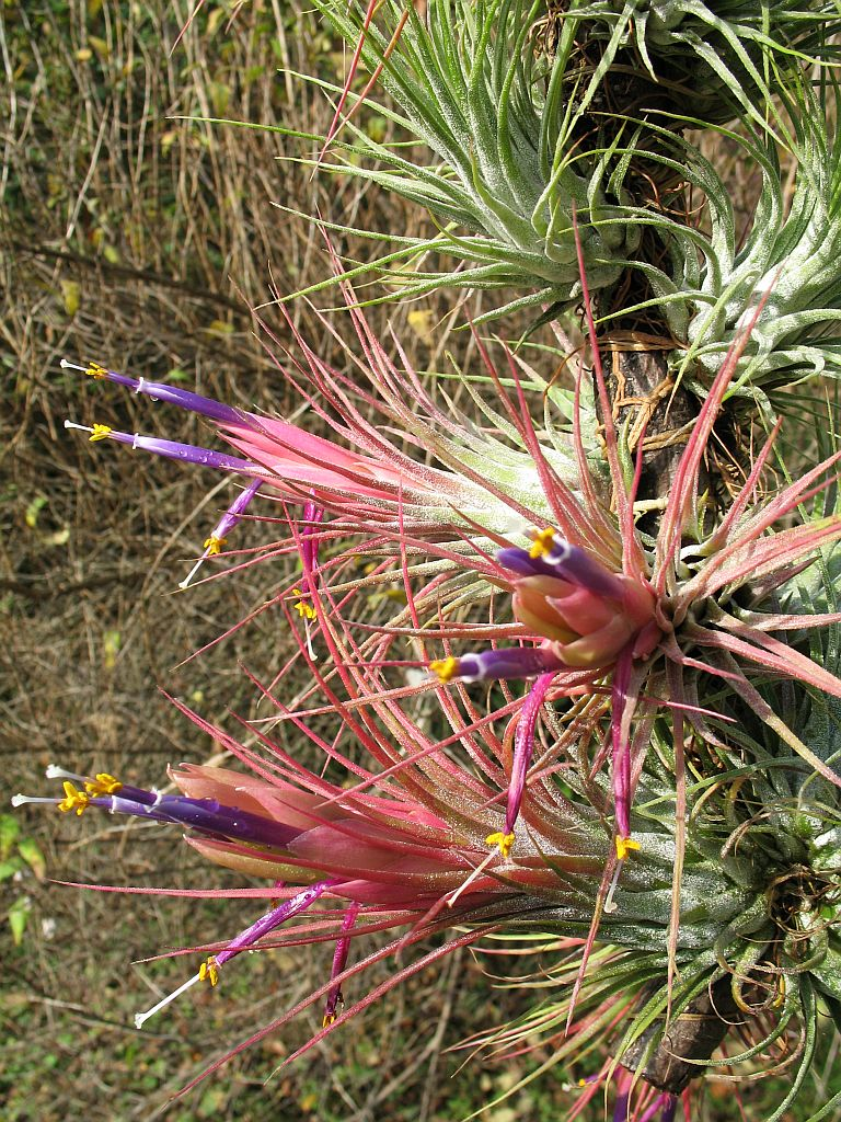 Tillandsia delicata in cultivation at the Botanical Garden of Heidelberg, Germany.